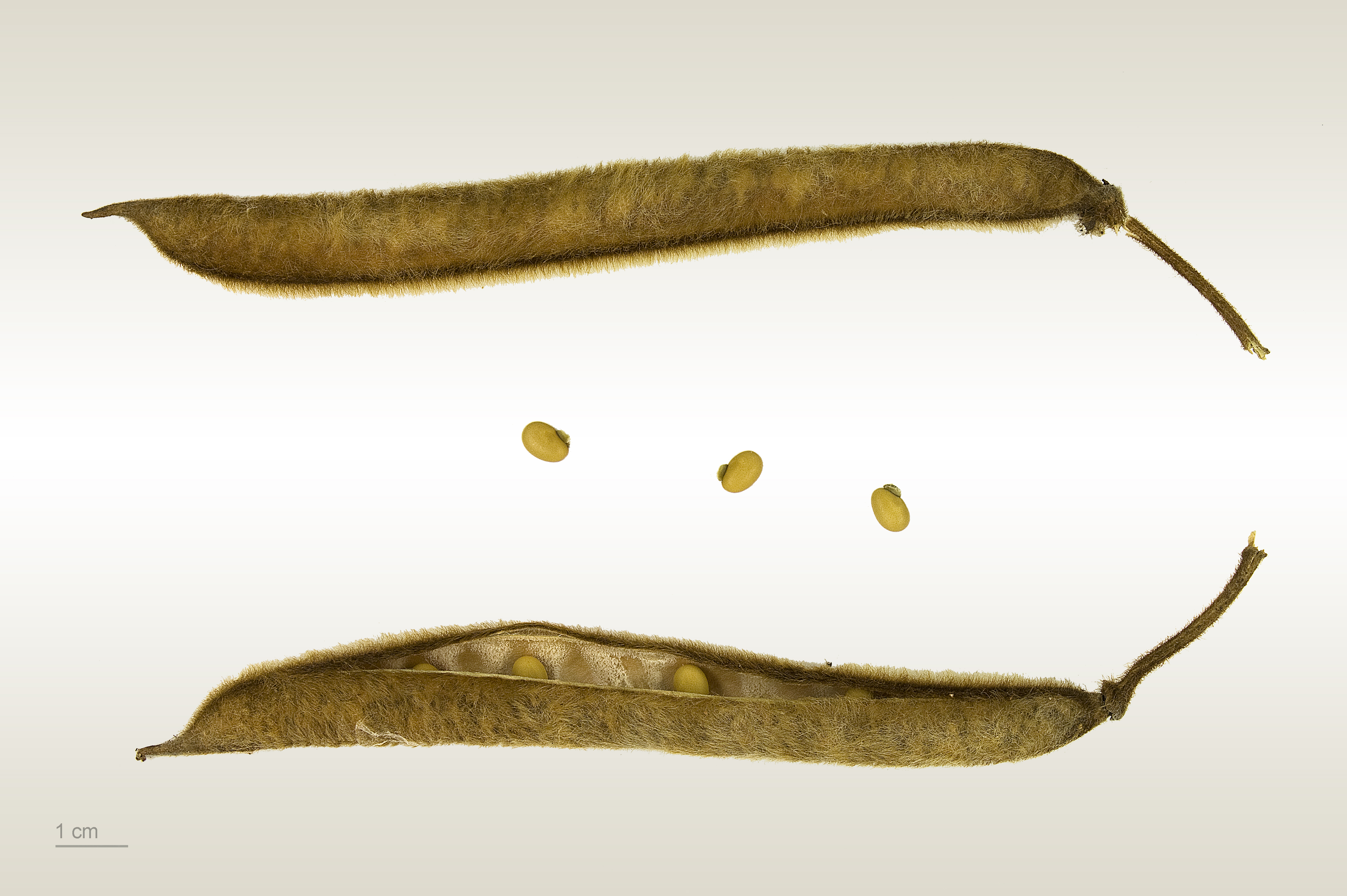 fish-poison-bean, fruits and seeds